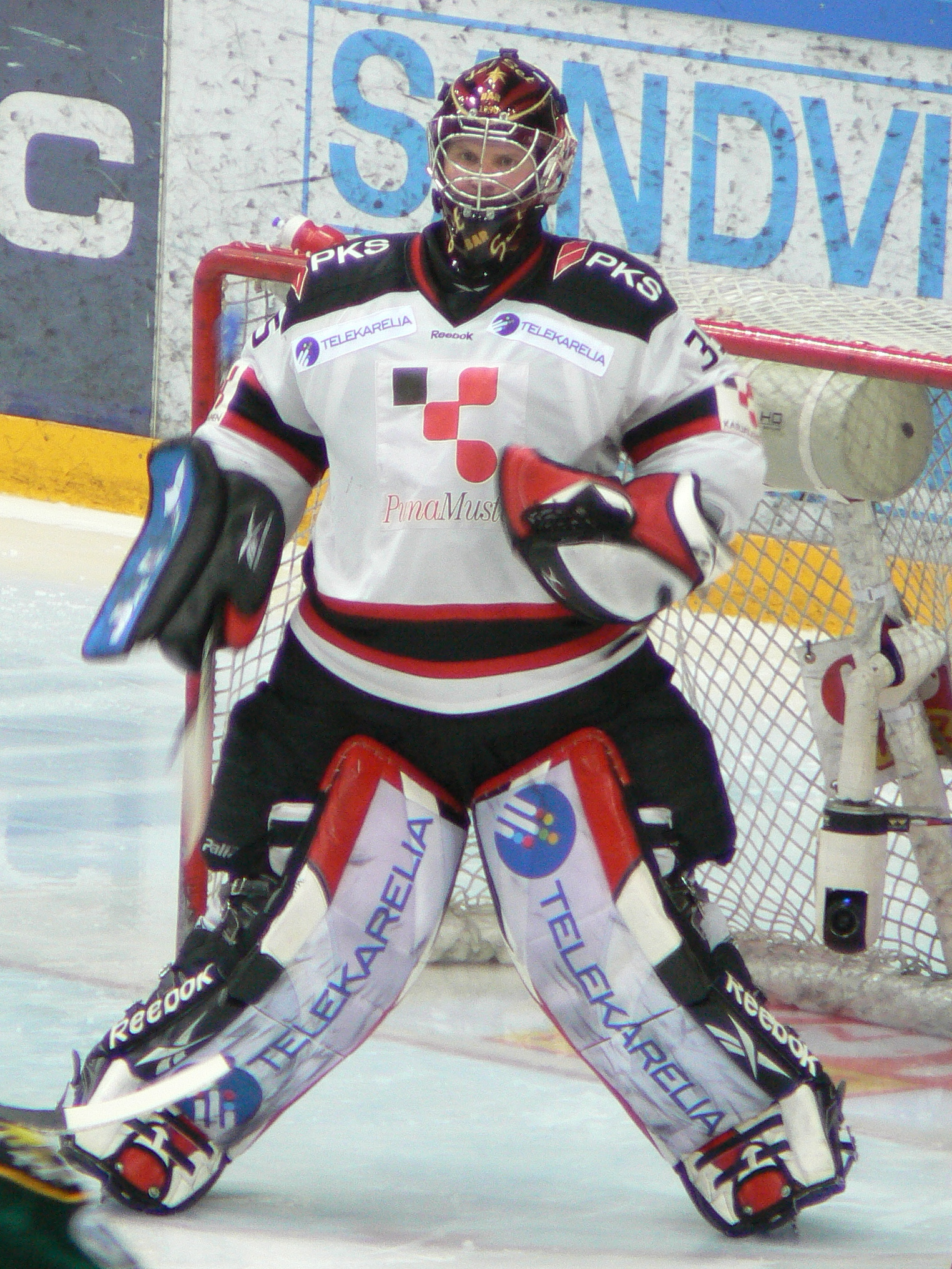 Finnish ice hockey goaltender Mikko Rämö playing for Joensuu Jokipojat of the Finnish Mestis league in March, 2010.